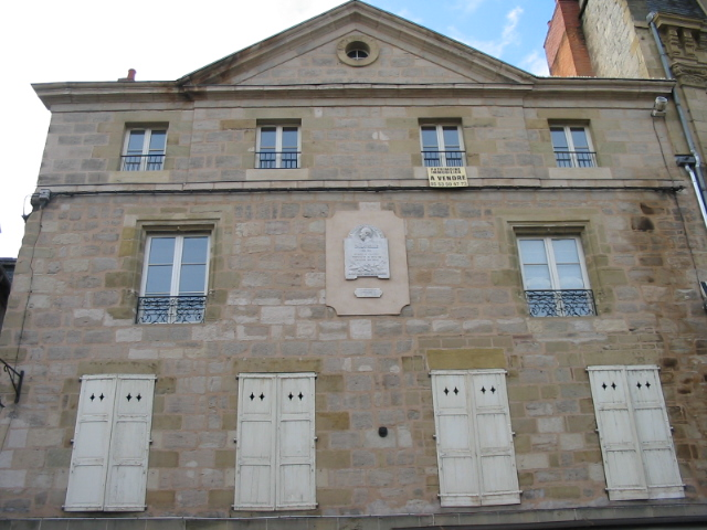 Native house of Pierre André Latreille;, Brive-la-Gaillarde, South-Western France